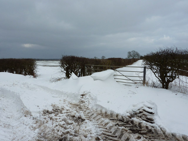 Drifting snow on Whalebone Lane